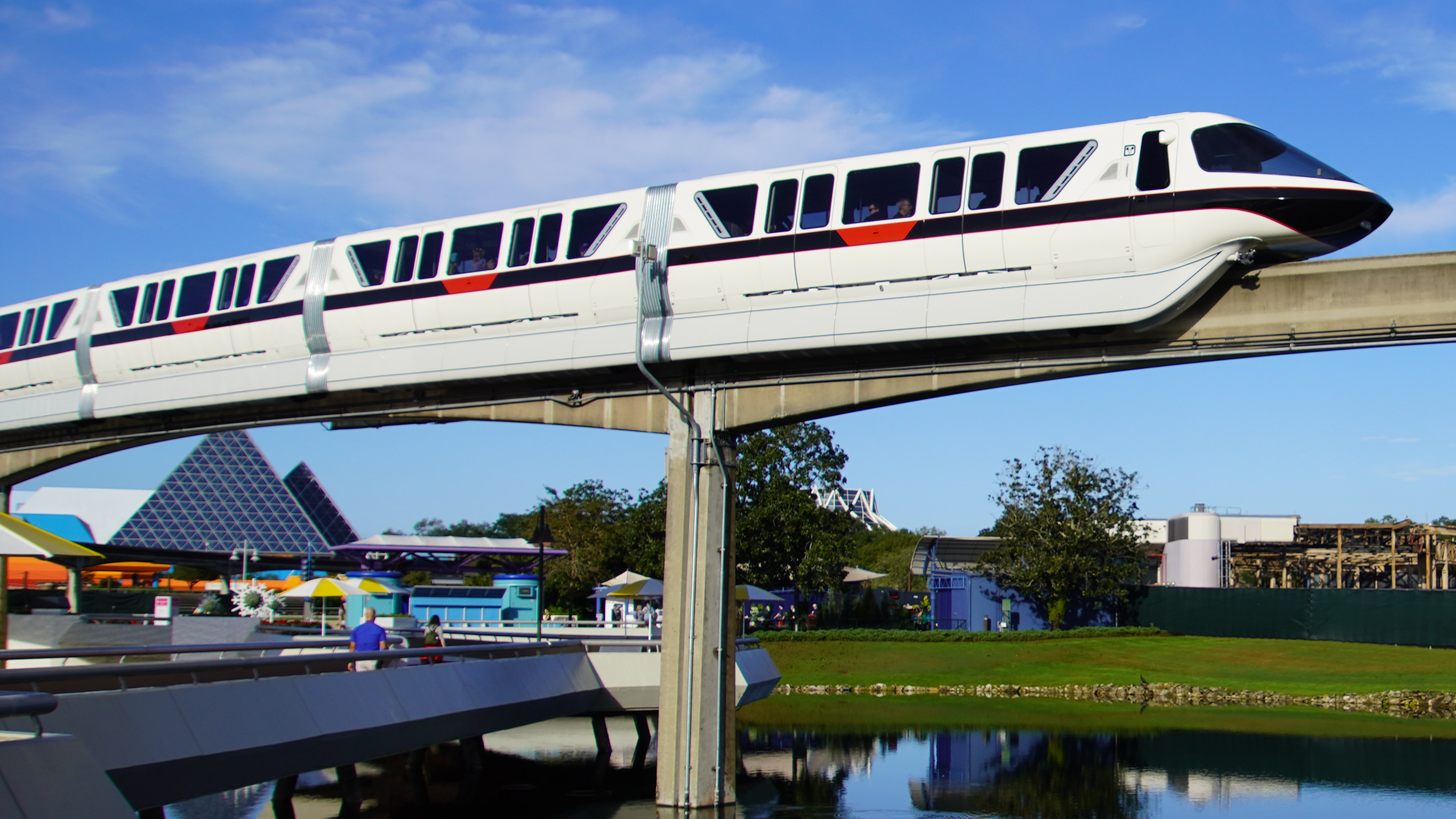 Red insets were added to Walt Disney World monorail Black during December 2019 refurbishment.